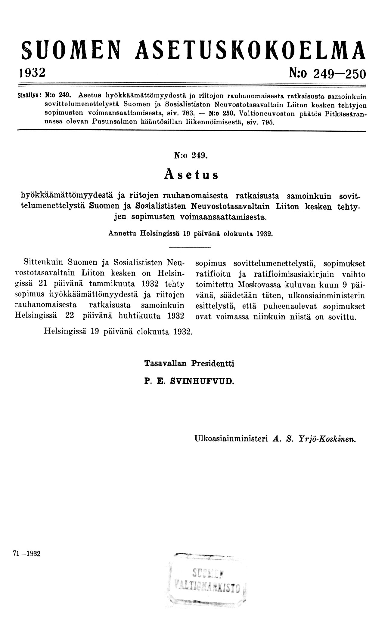 Non-agression pact between Finland and Soviet from 1932. It was broken by Soviet in 1939. Page 1.